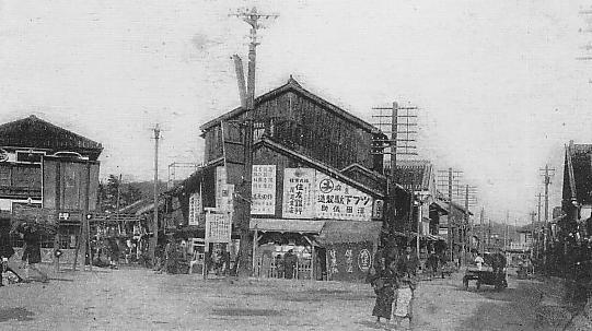 Onomichi downtown before 1945